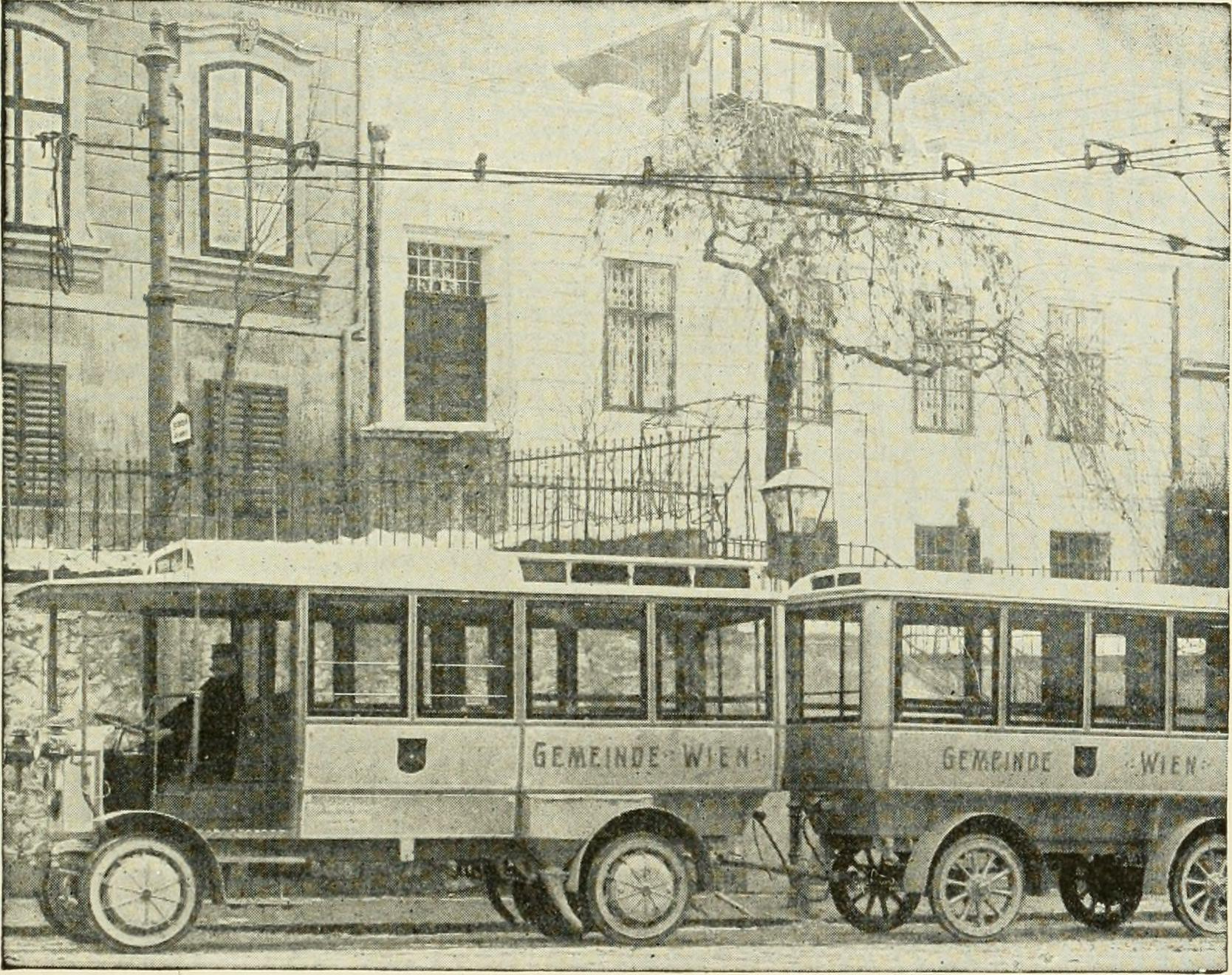 Title: Cyclopedia of applied electricity : a general reference work on direct-current generators and motors, storage batteries, electrochemistry, welding, electric wiring, meters, electric lighting, electric railways, power stations, switchboards, power transmission, alternating-current machinery, telegraphy, etc. Year: 1916 (1910s) Authors: American Technical Society Subjects: Electric engineering Publisher: Chicago : American Technical Society Text Appearing Before Image: Fig. S. Details of Trolley CableWinding Drum 388 TRACKLESS TROLLEY TRACTION 9 the plugs to be pulled out and the carriages exchanged, with but aloss of about ten to twenty seconds of time. It is sometimes noteven necessary for the cars to stop, the cables being exchangedwhile the cars are running by virtue of their own momentum. Motors. The motors of these cars are unique and very inter-esting, being entirely embedded in the wheels or, more properly, theythemselves make up the wheels, for the field magnets of each motorare the hubs of the wheel and the armature rotates around them, Fig. 9.The motors are of the direct-current series-wound type, of about 20 Text Appearing After Image: Fig. 9. Four-Motored Vienna Trackless Trolley with Trailer horsepower capacity, and the current is supplied to them througha hollow axle. Each motor is entirely enclosed, so that it is water-and dirt-proof. By this motor construction an economy of bothspace and power is effected and the cars run with high efficiency. Thecontrollers are provided with 6 speeds, 3 with series-connected motorsand 3 with parallel-connected, with 3 points additional for braking.Cars. The cars are very light and are built of pressed steel.On account of the fact that the motors are in the wheels, the springs 389 10 TRACKLESS TROLLEY TRACTION